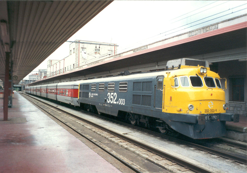 Talgo III in Irun railway station (Spain).